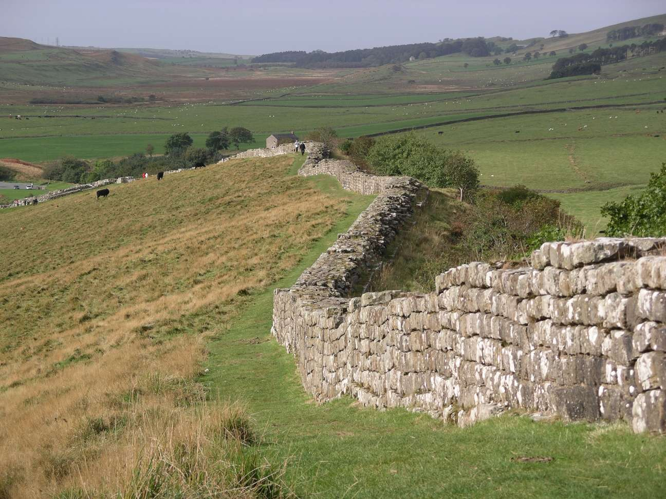 Hadrian's wall just east of Cawfields quarry, Northumberland in October 2005.